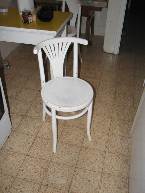 A Mundus chair, see mundus furniture. This particular chair was in a family home in Hungary, in the very first years of the 20th century. Currently with User:Samfreed